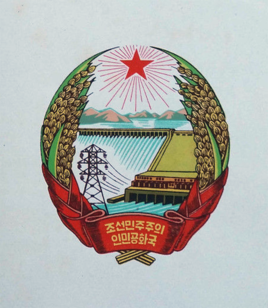 Variant of the emblem of North Korea, containing features found in the current and pre-1993 versions, namely the mountains of pre-1993, with the dam features of the post-1993 emblem.